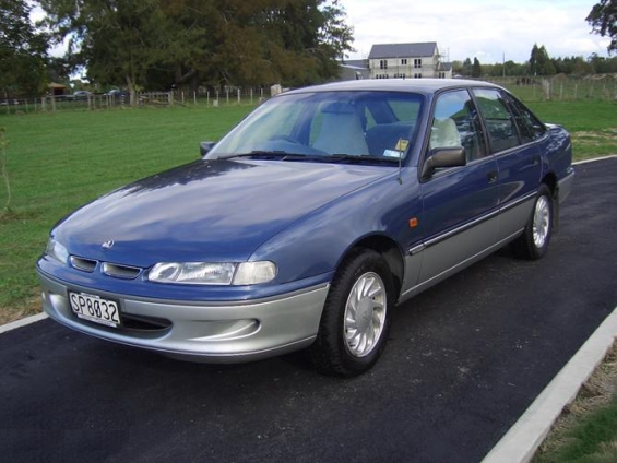 1993–1994 Holden VR Commodore Executive sedan.